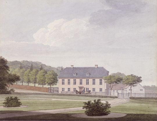 Scene at Skodsborg House in about 1840. Watercolour by H. G. F. Holm